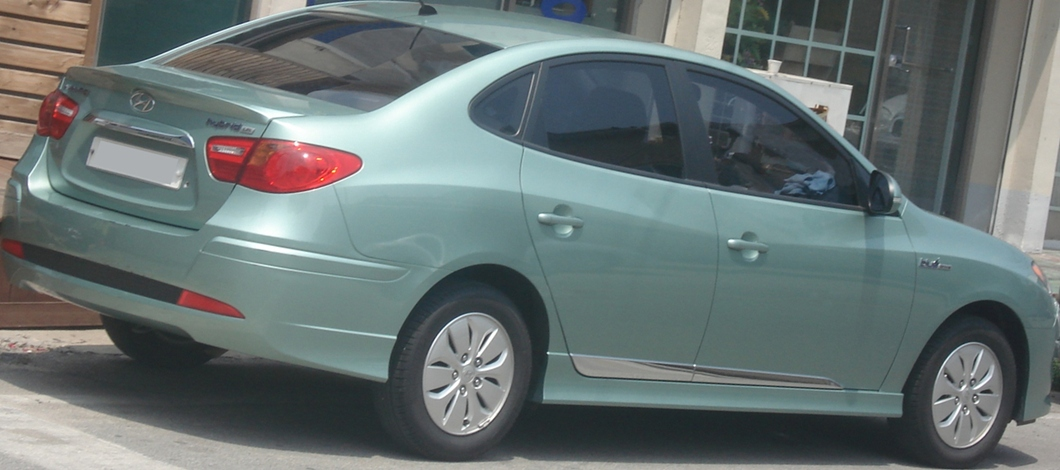 Hyundai Avante LPi Hybrid